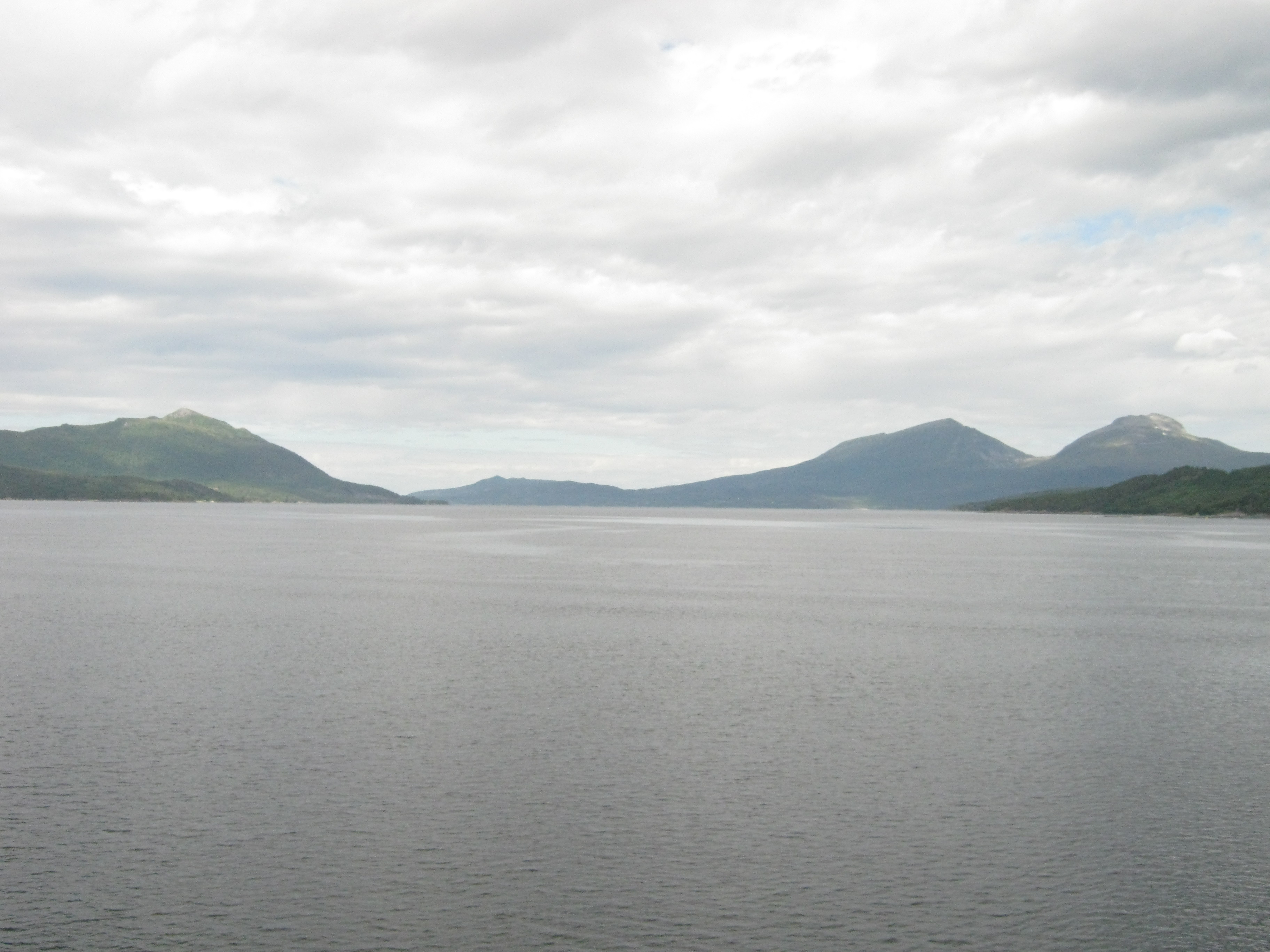 The fjord Halsafjorden in Møre og Romsdal county, Norway. To the left, Tingvoll municipality, in the middle the island Tustna and to the right Halsa municipality. Facing north from the ferry Halsa-Kanestraum